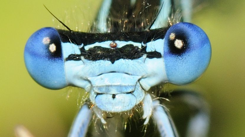 Please report references to .